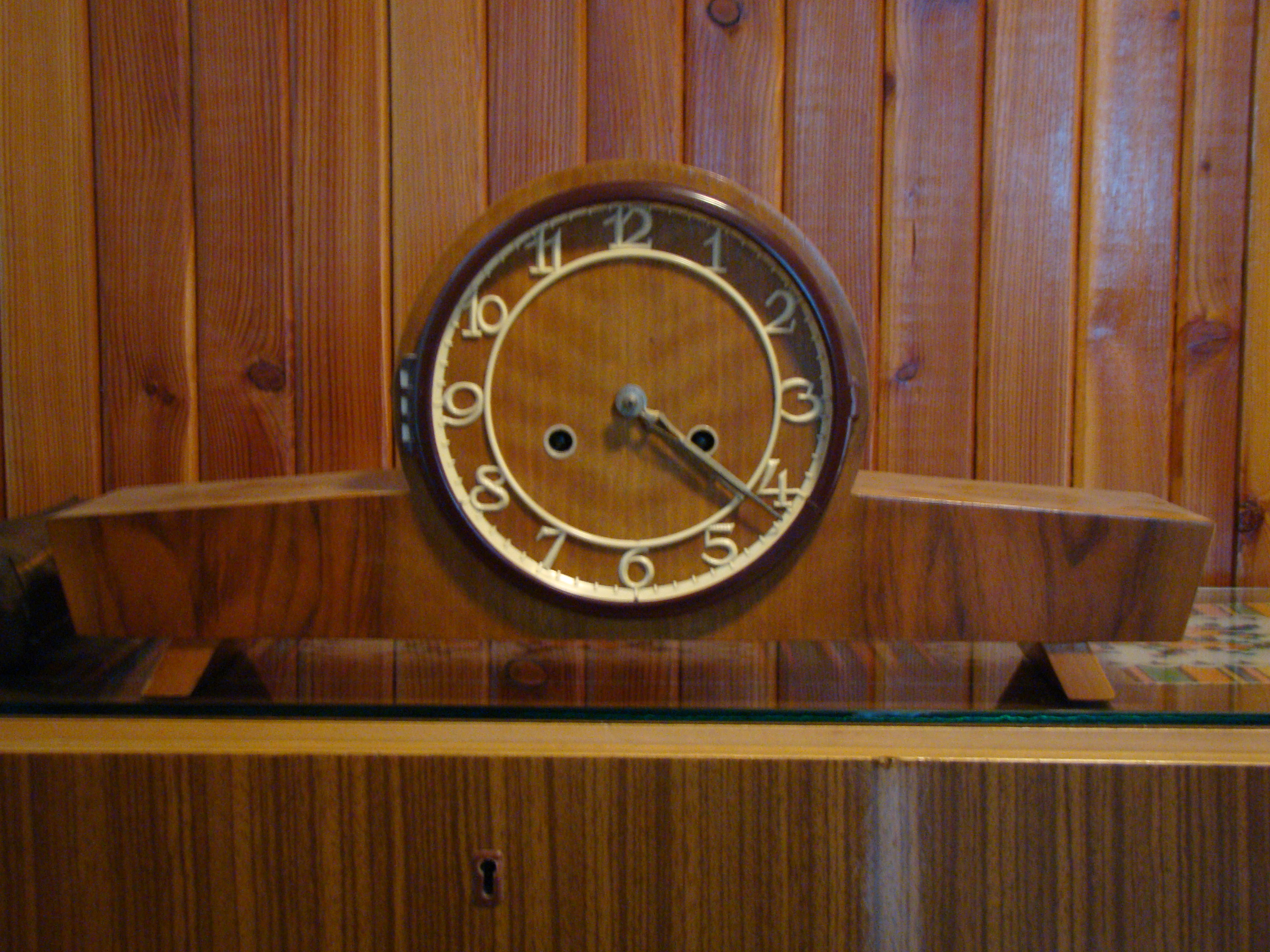 Clock PREDOM METRON